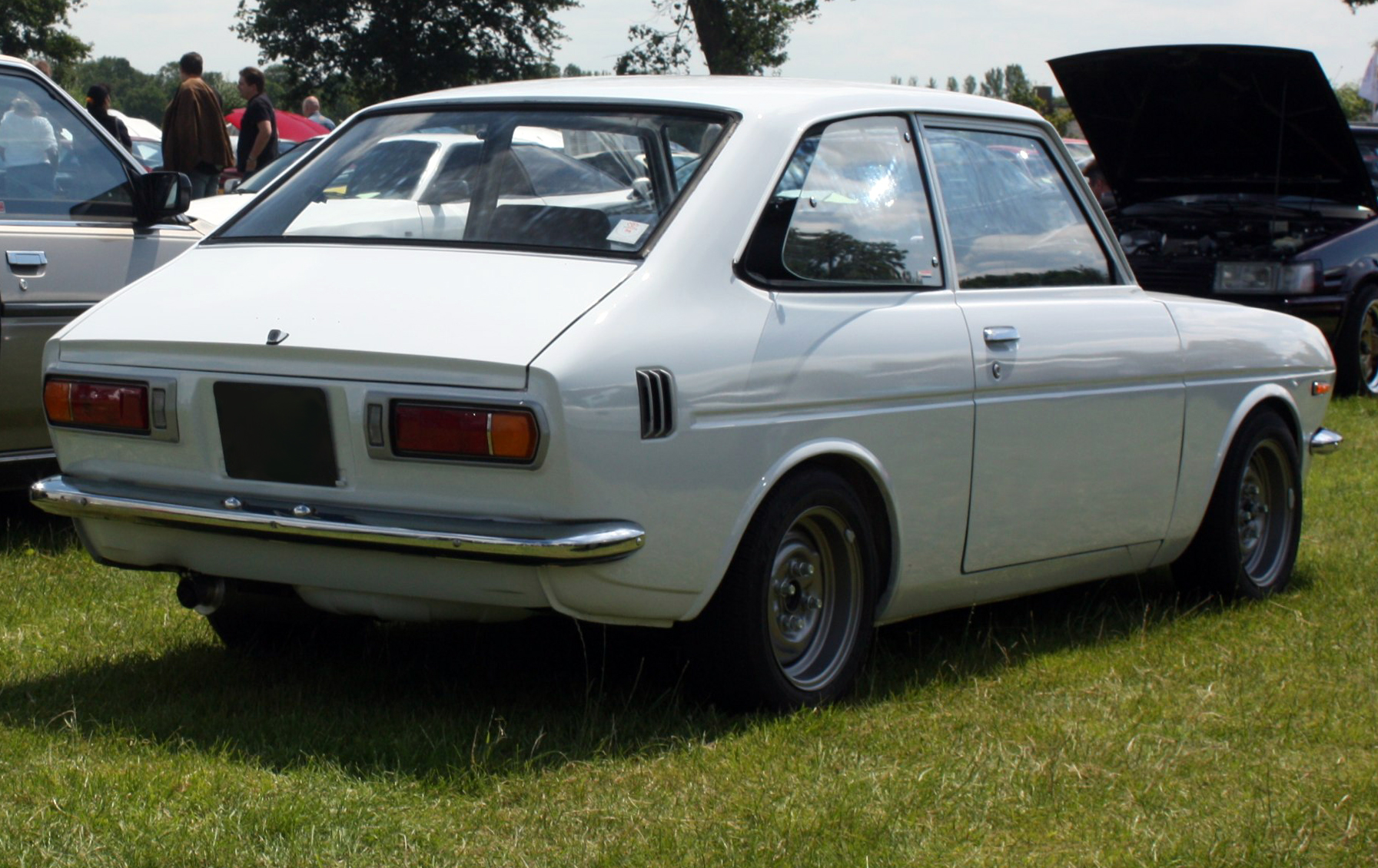 Rear view of Toyota 1000 (Publica) in the Netherlands